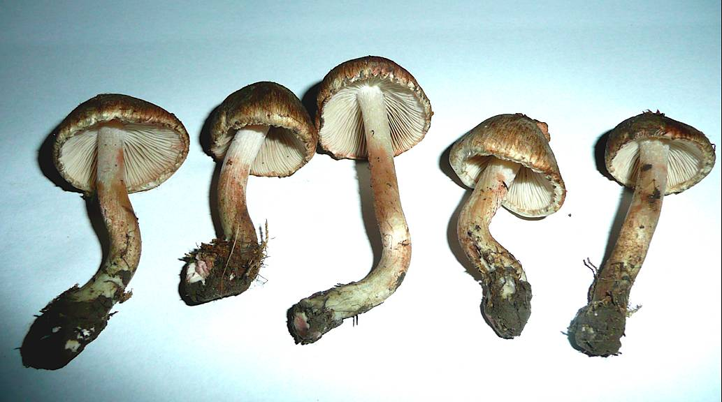 Inocybe haemacta (Berk. & Cooke) Sacc. (104756)